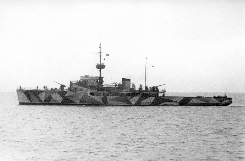 Side view of the Romanian minelayer Amiral Murgescu